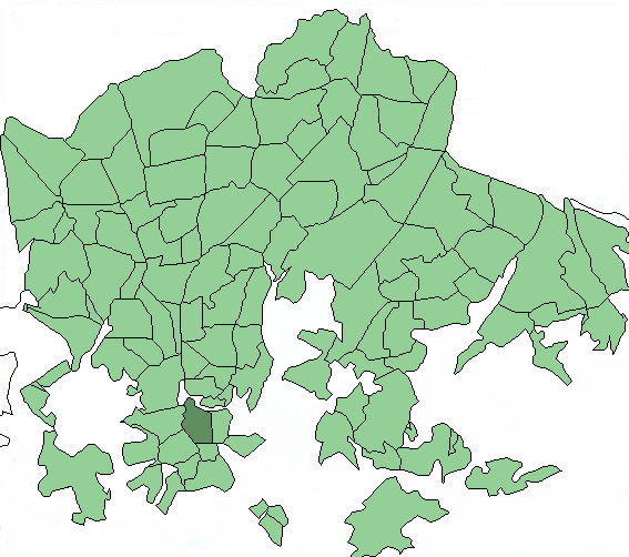 Districts of Helsinki city, Kluuvi highlighted.